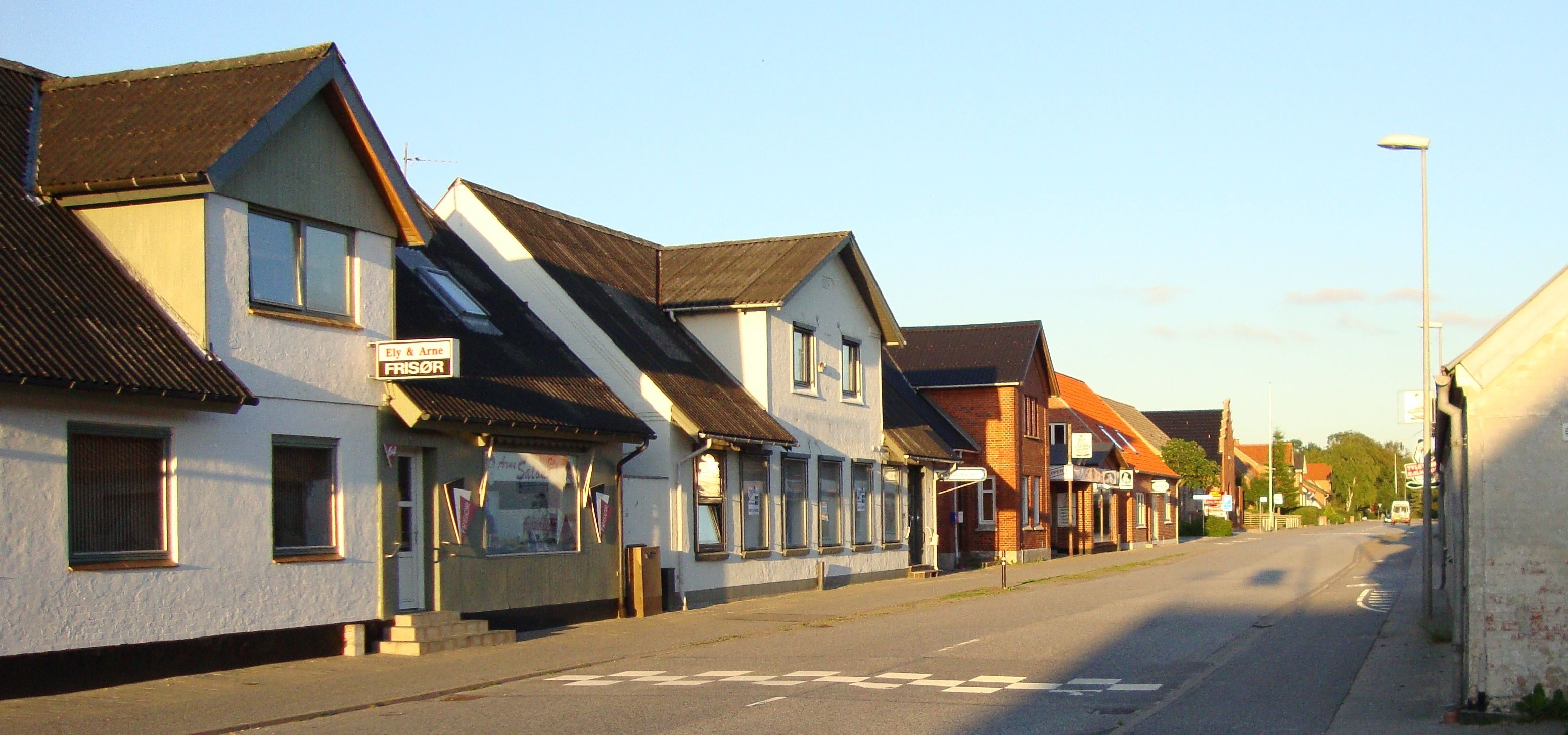 Luneborgs vej(Luneborgs road) in Tylstrup town in Nordjylland, Denmark.